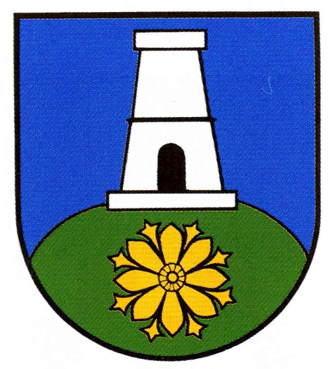 Coat of Arms of Samtgemeinde Heeseberg